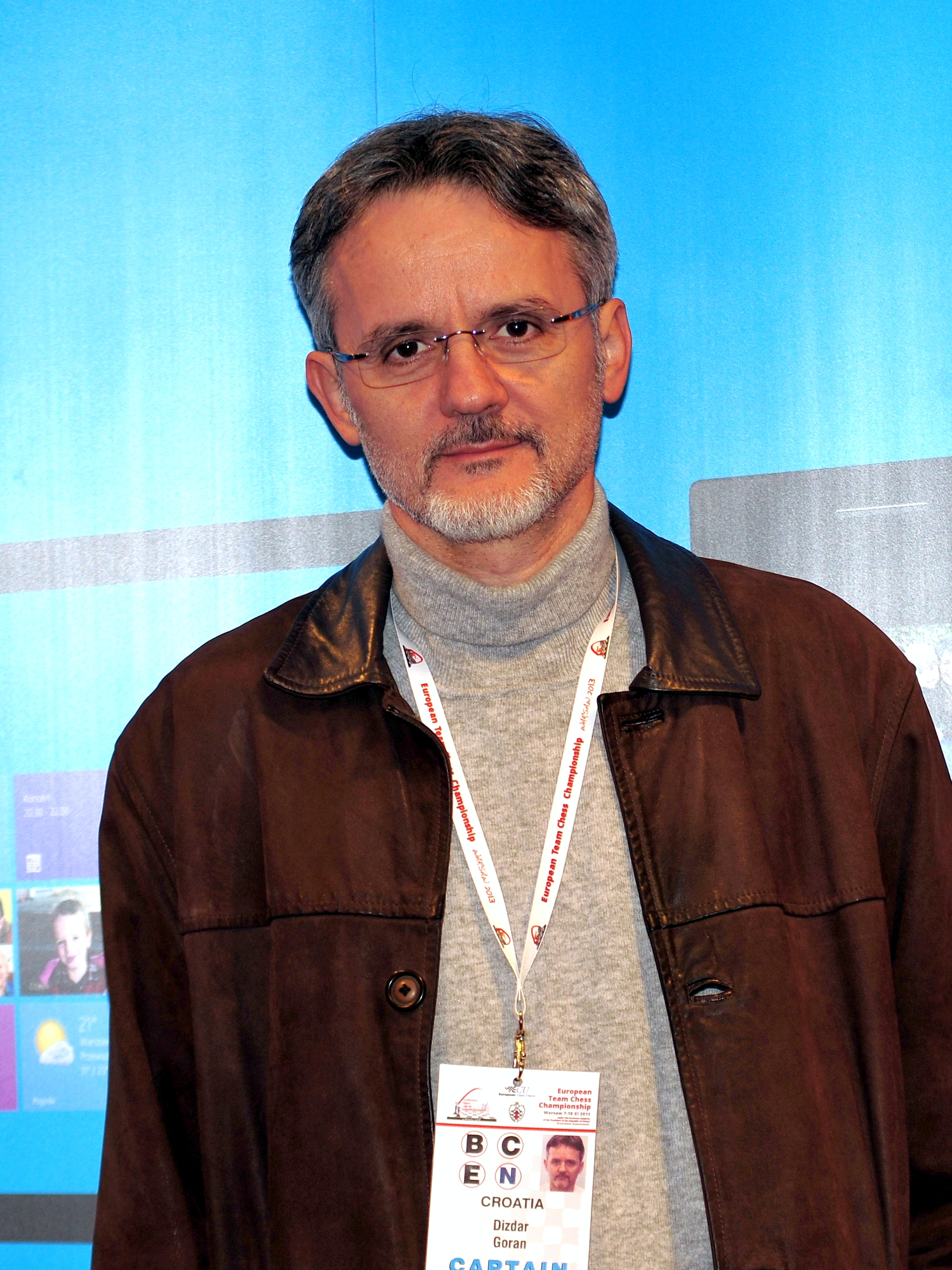 GM Goran Dizdar, European Chess Team Championship Warsaw 2013